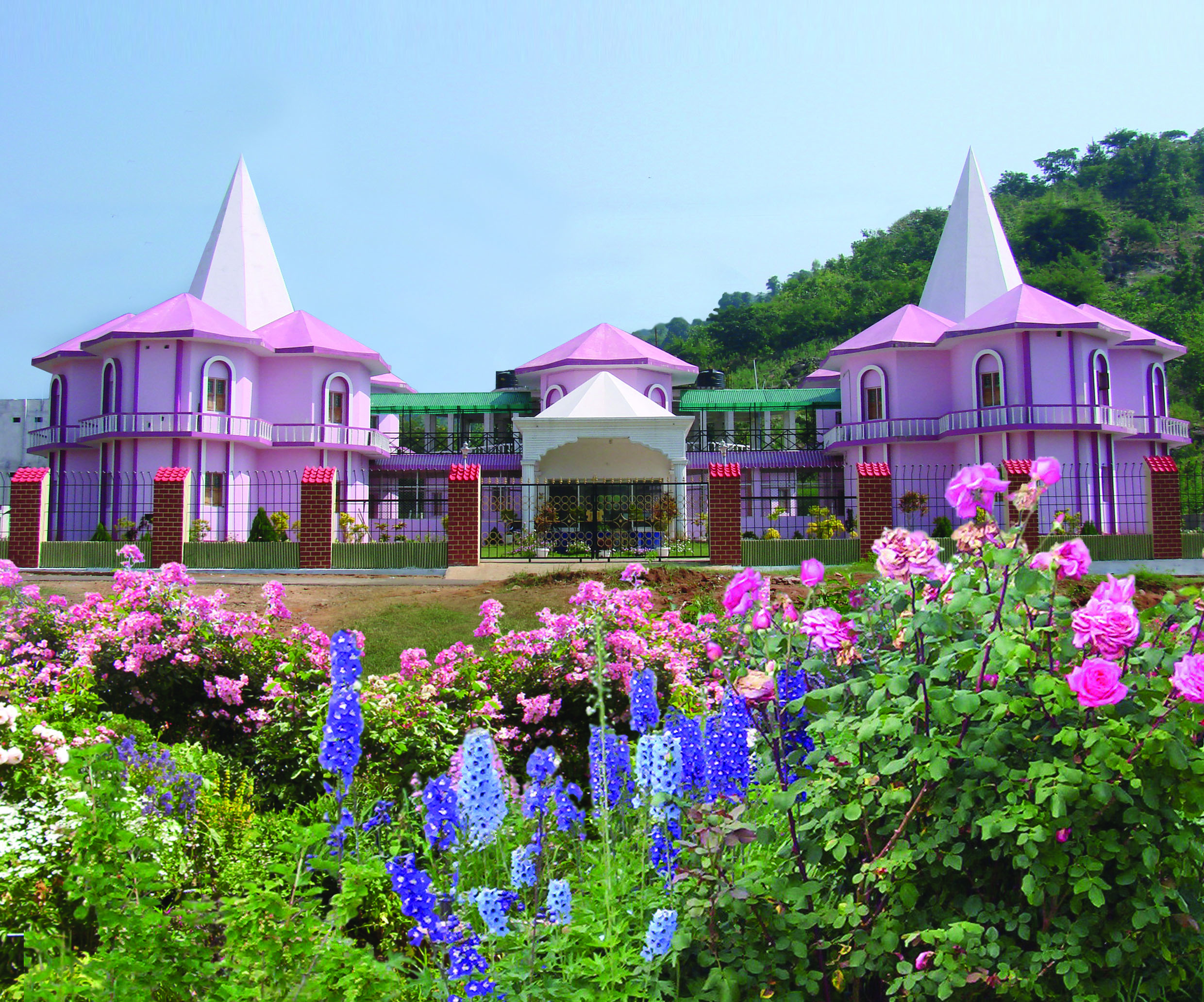 Visitors Delight ~ Guest House